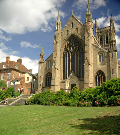 Taken by Merlin Cooper 2005. View of the west window which overlooks the river Severn.